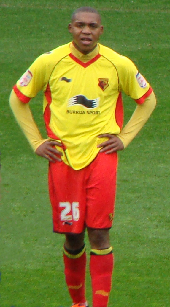 09/04/12 Cardiff v Watford, Championship, Cardiff City Stadium, Cardiff, Wales